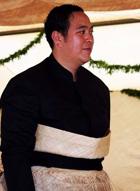 Crown Princes of Tonga at the garden party of the final day of the festivities of his parents coronation